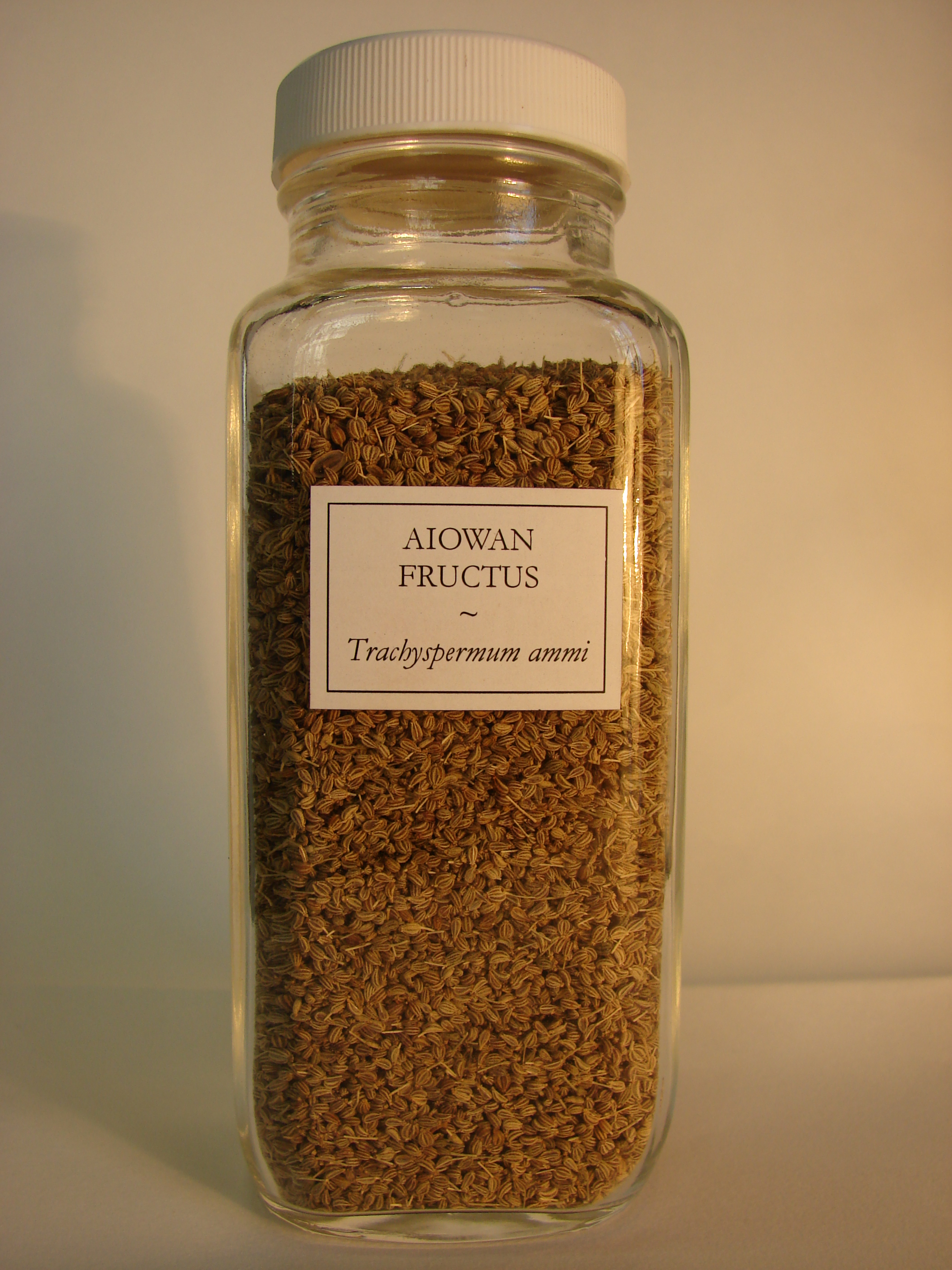 Aiowan fructus, Trachyspermum ammi